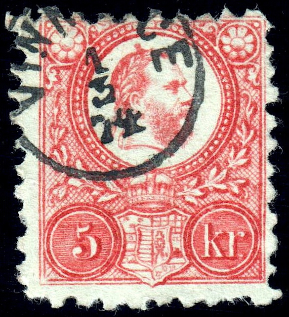 Hungary engraved 1871-72 issue, cancelled (Fingerhutstempel Mueller type gffEj) at 'VINKOVCE 1 3 74', Croatia-Slavonia Military Border. Catalogue: Sc. 9, Mi. 10